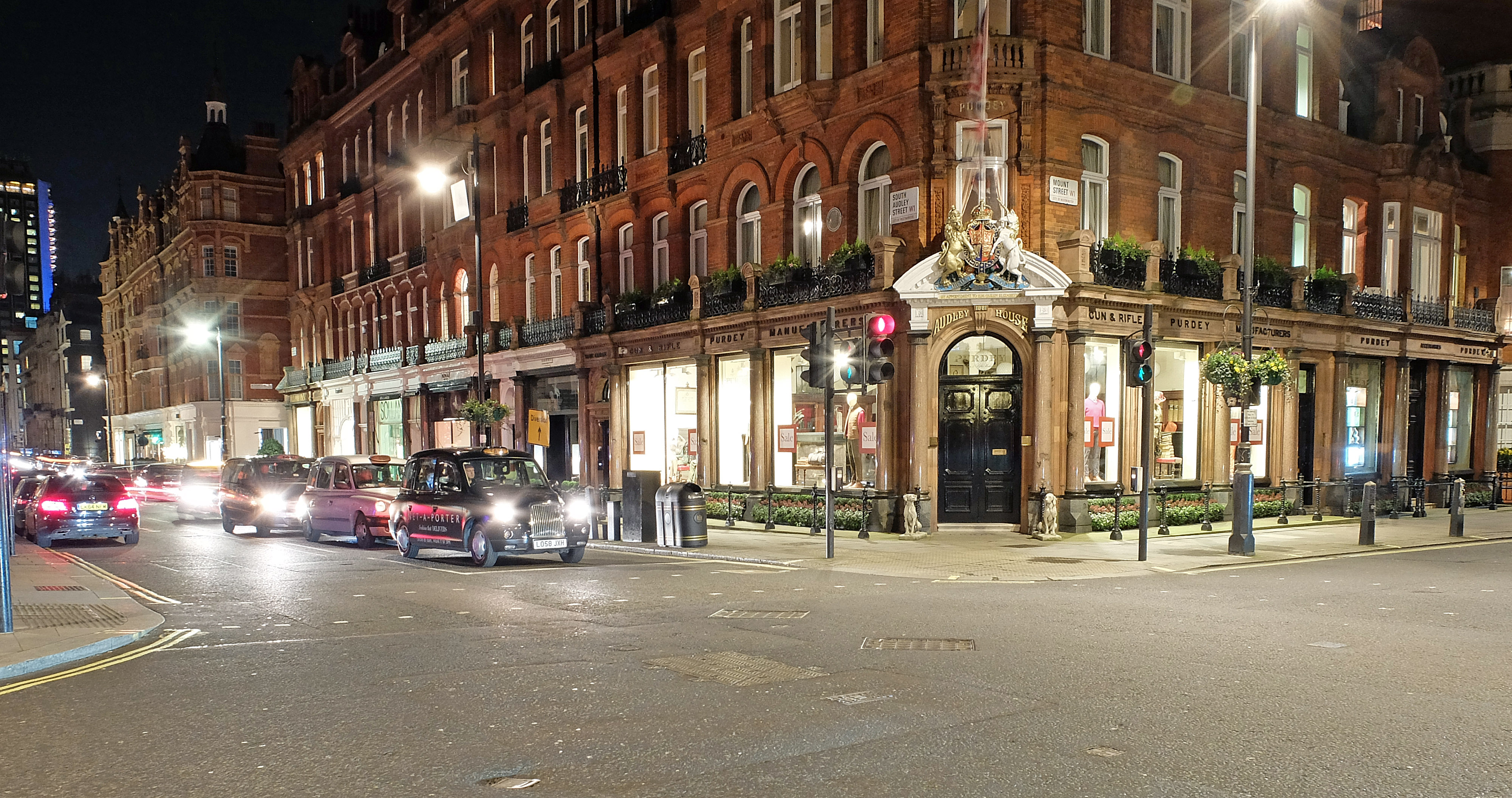 James Purdey & Sons in Audley House building located at 57-58 South Audley Street in Mayfair. The building, designed by architect William Lambert and completed by B.E. Nightingale, was fast acknowledged as the most prestigious gun shop in the country. Land and Water called it a ‘Palace amongst Gun Manufactories’ – for originally, guns were stocked, finished and engraved on the premises. Looking down into a ‘well’ in the Long Room, James Purdey the Younger could follow the progress of the craftsmen below. In photographs of the time, piles of wooden ‘blanks’ can be seen alongside it, waiting to be turned into stocks. The greatest shots of the past two centuries have visited the Long Room, and many are immortalised here through portraits and memorabilia. In 1938, the well was closed over, and a long table installed, which is still in place today. At one stage, two pianos and a harmonium were moved in; Tom Purdey was a keen musician. Audley House has earned its place in British history. Not only does the building bear the scars of a WWII air raid – you can still see the great shrapnel marks in the marble pillars outside – it even played a role in the D-Day landings. In 1942, Eisenhower’s Deputy Chief of Staff, General Bedell-Smith, used the Long Room for battle planning. General Eisenhower was often at these meetings. Then in 1975, an IRA bomb destroyed every pane of glass in the east-facing side of the building. But restored, resplendent, Audley House retains its magnetic appeal for any lover of the sporting gun or rifle. It is a chance to experience a different age, the values of which we are proud to preserve.